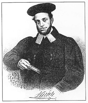 Samson Raphael Hirsch (1808-1888), Lithography, 1847